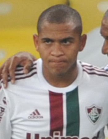 Rio de Janeiro, Rio de Janeiro, Brasil, 03 abril 2014 – Maracanã, Copa do Brasil – 1ª fase – Jogo de volta – Fluminense x Vitória – WALTER, CRISTOVÃO BORGES. Foto: Moyses Ferman/Fotosflu